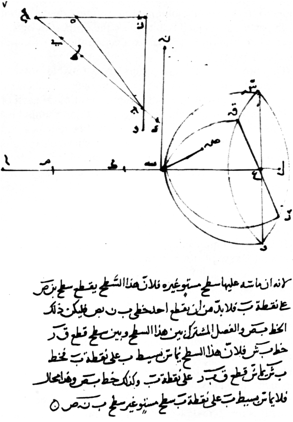 Milli MS 867, fol. 7r, Milli Library, Tehran (Ibn Sahl's treatiser on optics). reproduced from Rashed, R. "A pioneer in anaclastics: Ibn Sahl on burning mirrors and lenses", Isis 81, p. 464–491, 1990. [p. 465].